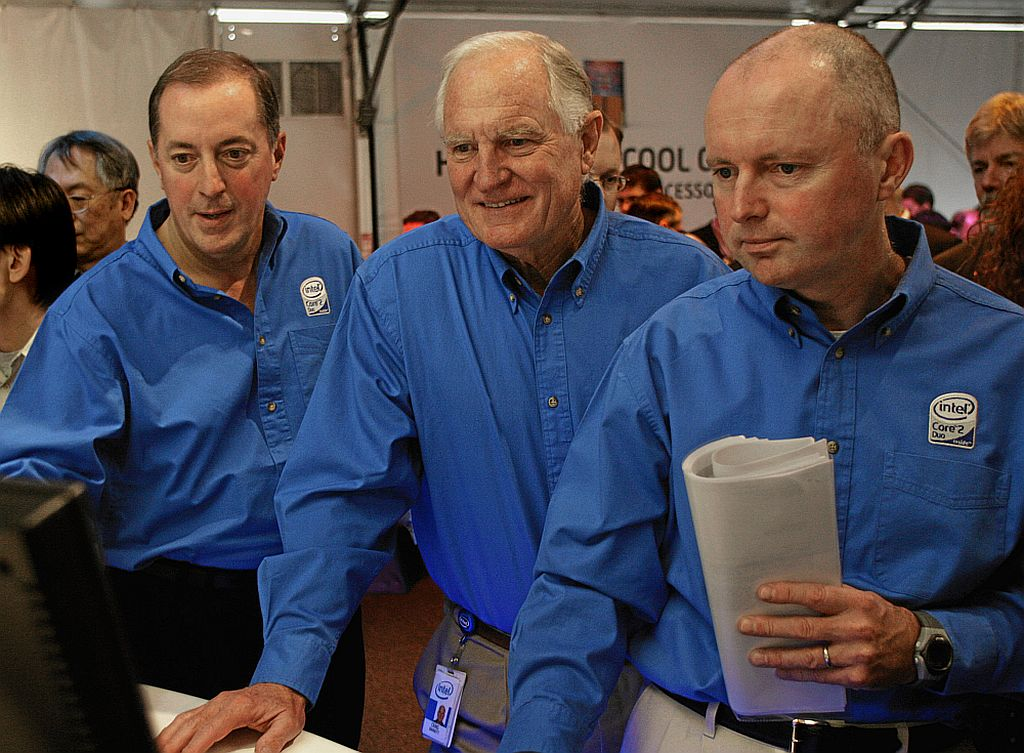 In 2006 Paul Otellini, president and CEO, Craig Barrett, chairman, and Sean Maloney, executive vice president and chief sales and marketing officer, view a microprocessor demo. Maloney was among the candidates to succeed Otellini as CEO until suffering a stroke in 2010. After the stroke he went on to serve as chairman of Intel China and eventually retired from the company in 2013. See also: Intel CEOs: A Look Back Since the company was founded in 1968, only five people have led the world's largest semiconductor manufacturer and leading computing company. Since it was founded on July 18, 1968, only five people have led Intel Corporation, a stark contrast to some far younger companies that have had many CEOs over shorter periods of time. The first two CEOs were company founders and the third was a participant from day one. Three of the five are San Francisco natives. The two most recent ascended to the role after decades with the company, each with different backgrounds.